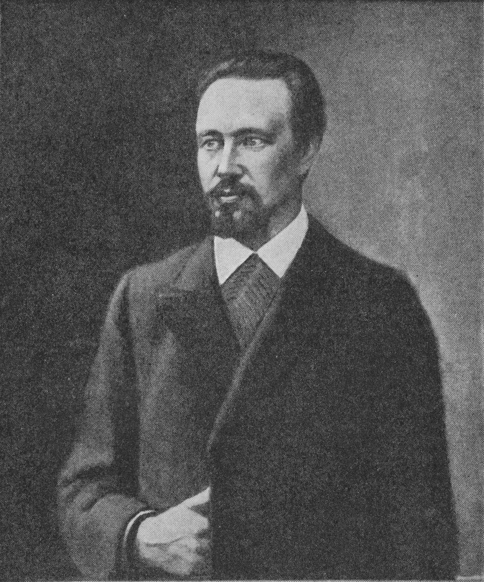 Portrait of Mikael Soininen (1860–1924). Painted from a photo.